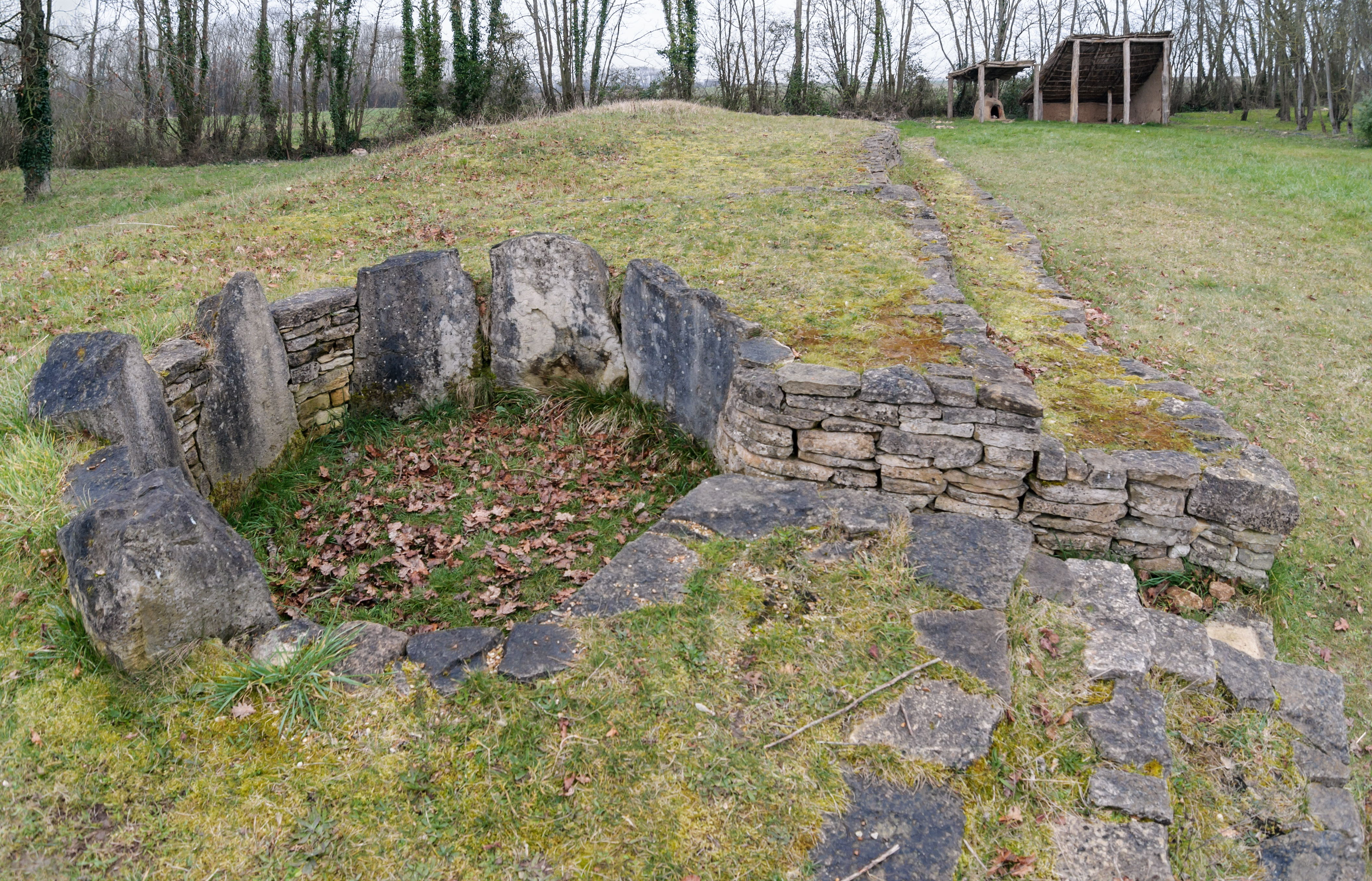 Long barrow in Colombiers-sur-Seulles, Calvados, Basse-Normandie, France. In the forground, the burial chamber.